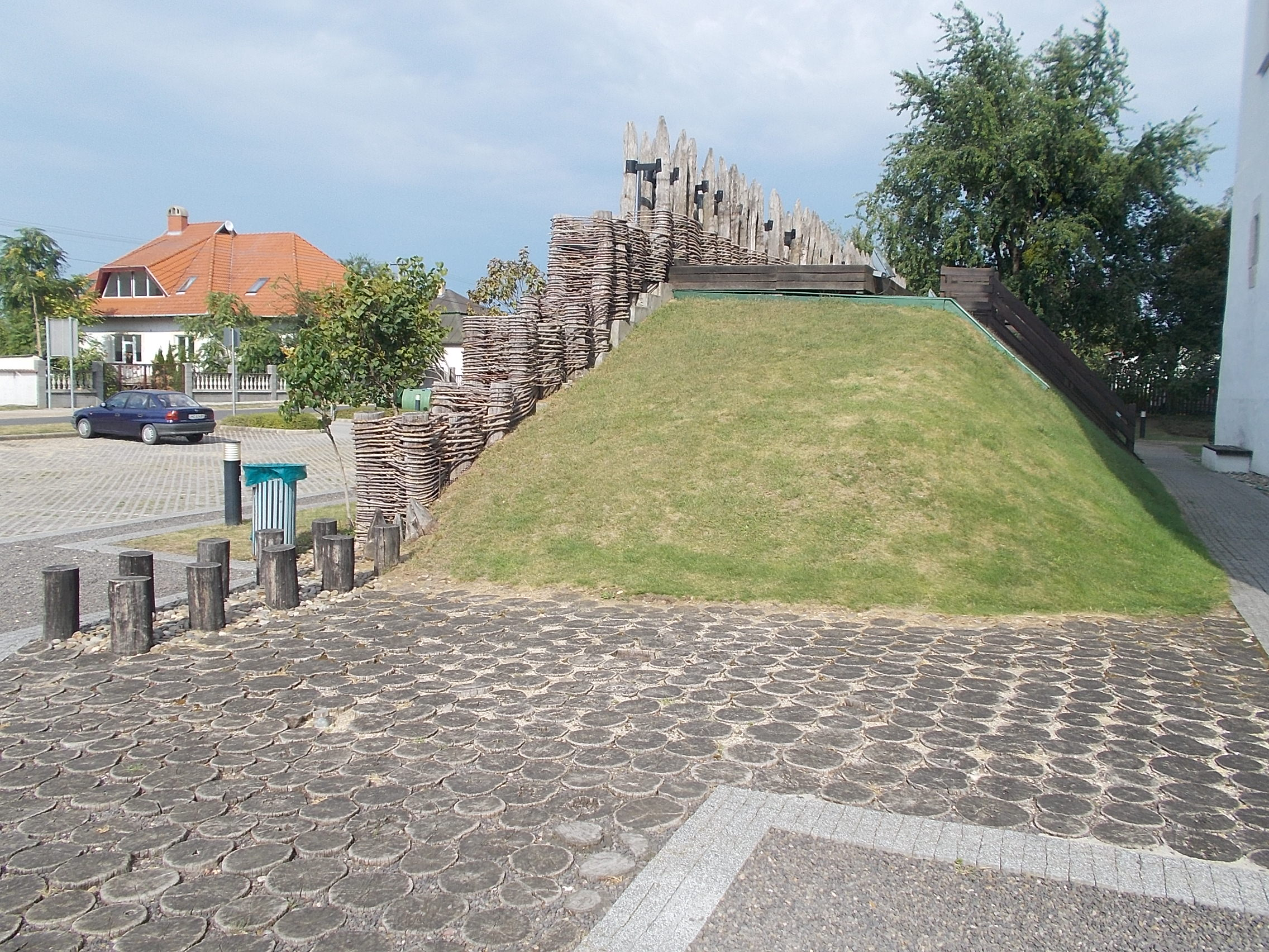 Bathory Castle (waxworks exhibit, conference room, Renaissance Lapidary, medieval restaurant). - Vár Street, Nyírbátor, Szabolcs-Szatmár-Bereg County, Hungary.